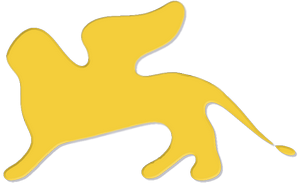 Golden Lion logo